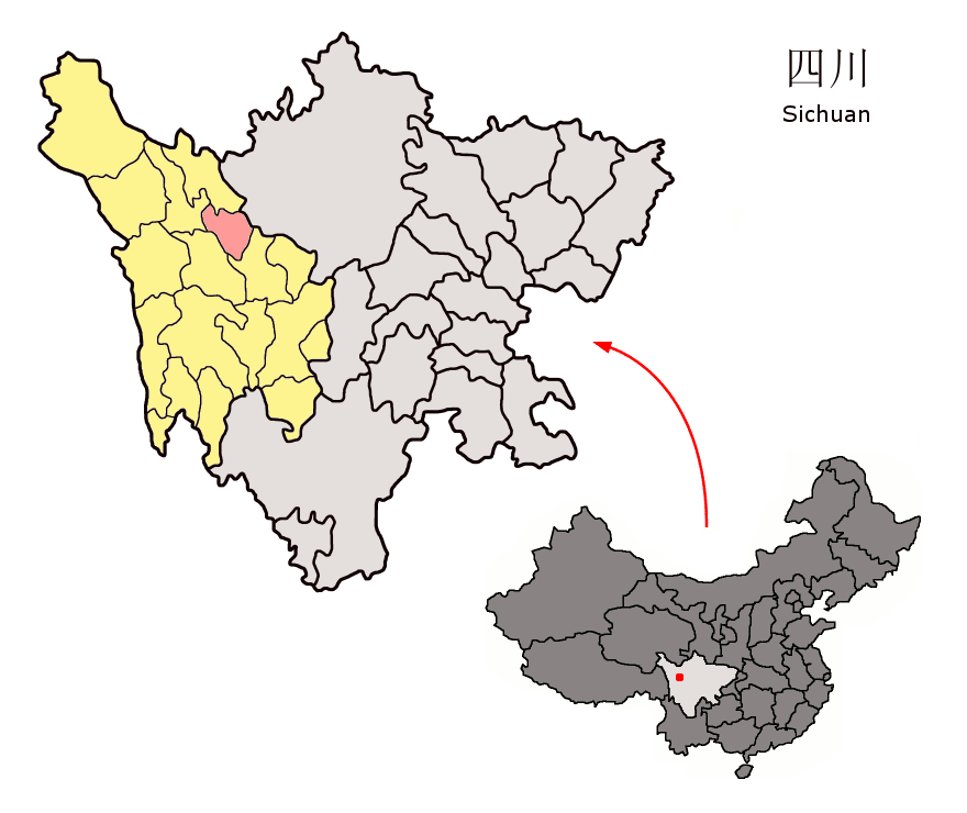 Location of Luhuo County (pink) and Garzê Prefecture (yellow) within Sichuan province of China Map drawn in september 2007 using various sources, mainly : Sichuan province administrative regions GIS data: 1:1M, County level, 1990 Sichuan Counties map from